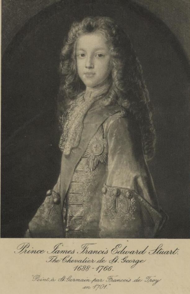 A portrait from the Welsh Portrait Collection at the National Library of Wales. Depicted person: James Francis Edward Stuart – British prince